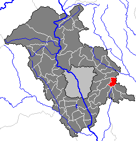 This map shows the area of the Gemeinde (municipality) Nestelbach bei Graz in the Bezirk (district) Graz-Umgebung, Styria, Austria.